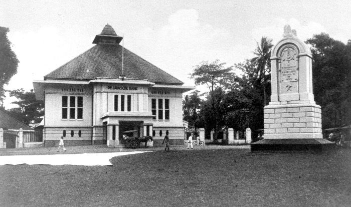 Office of the Java Bank and W.H. de Greve memorial